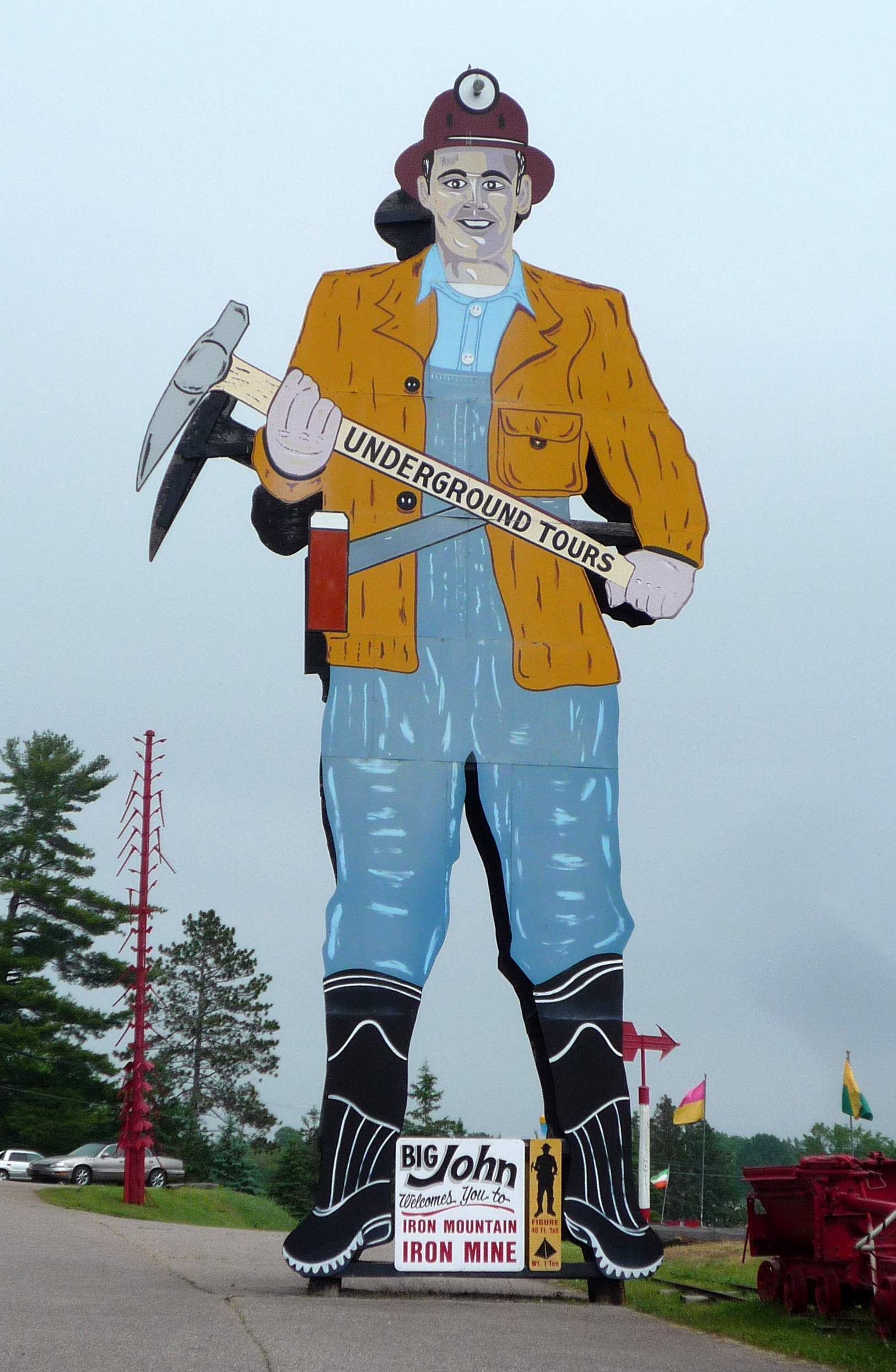 Big John ("The World's Largest Miner").